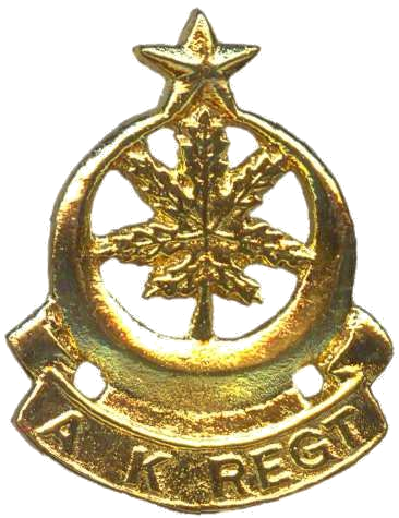 Azad Kashmir Regiment Cap Badge